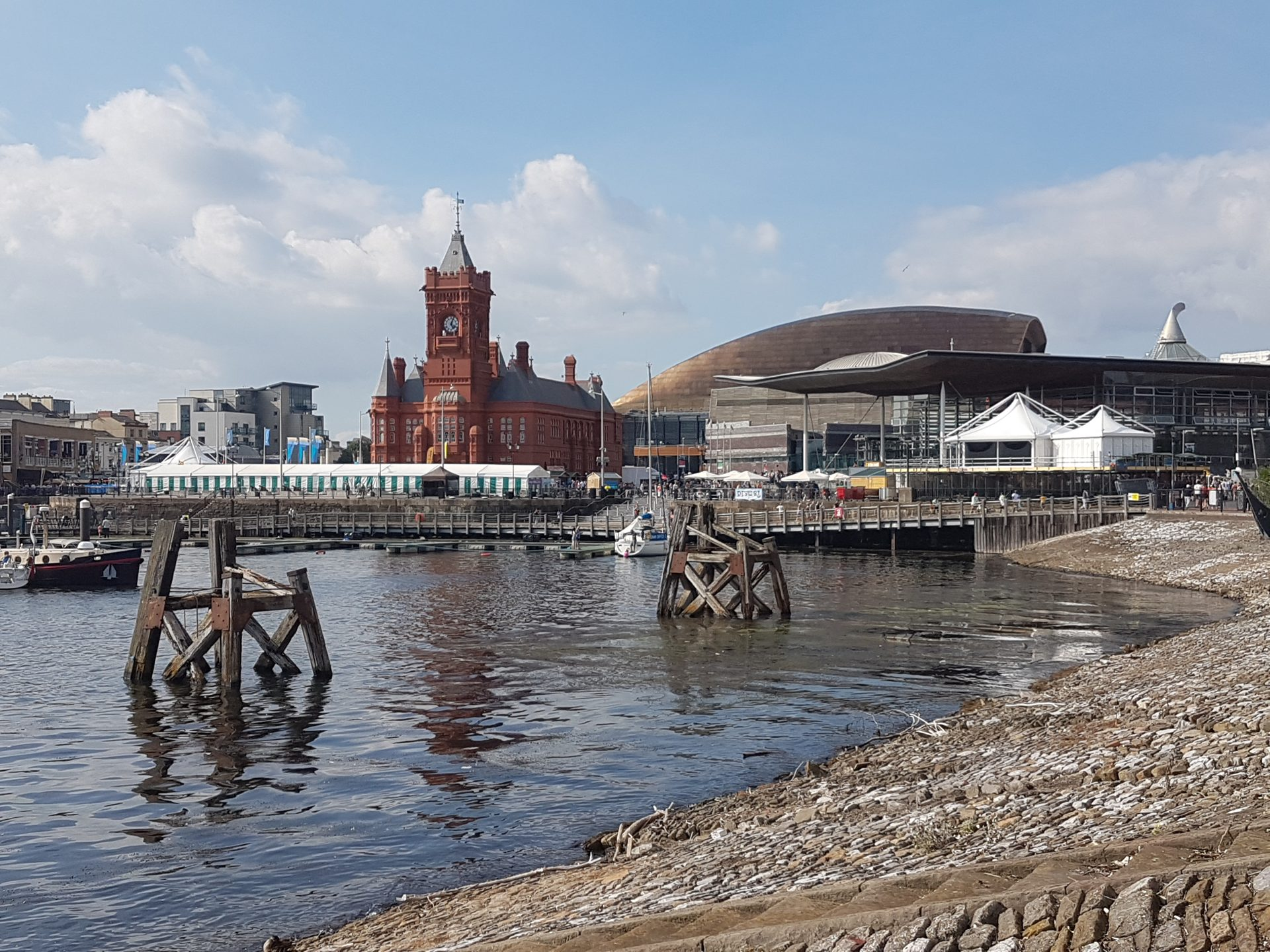 View of the National Eisteddfod of Wales Cardiff 2018 held in Cardiff Bay, with tents and stands set up around the Senedd building, the Pierhead building and Roald Dahl Plass